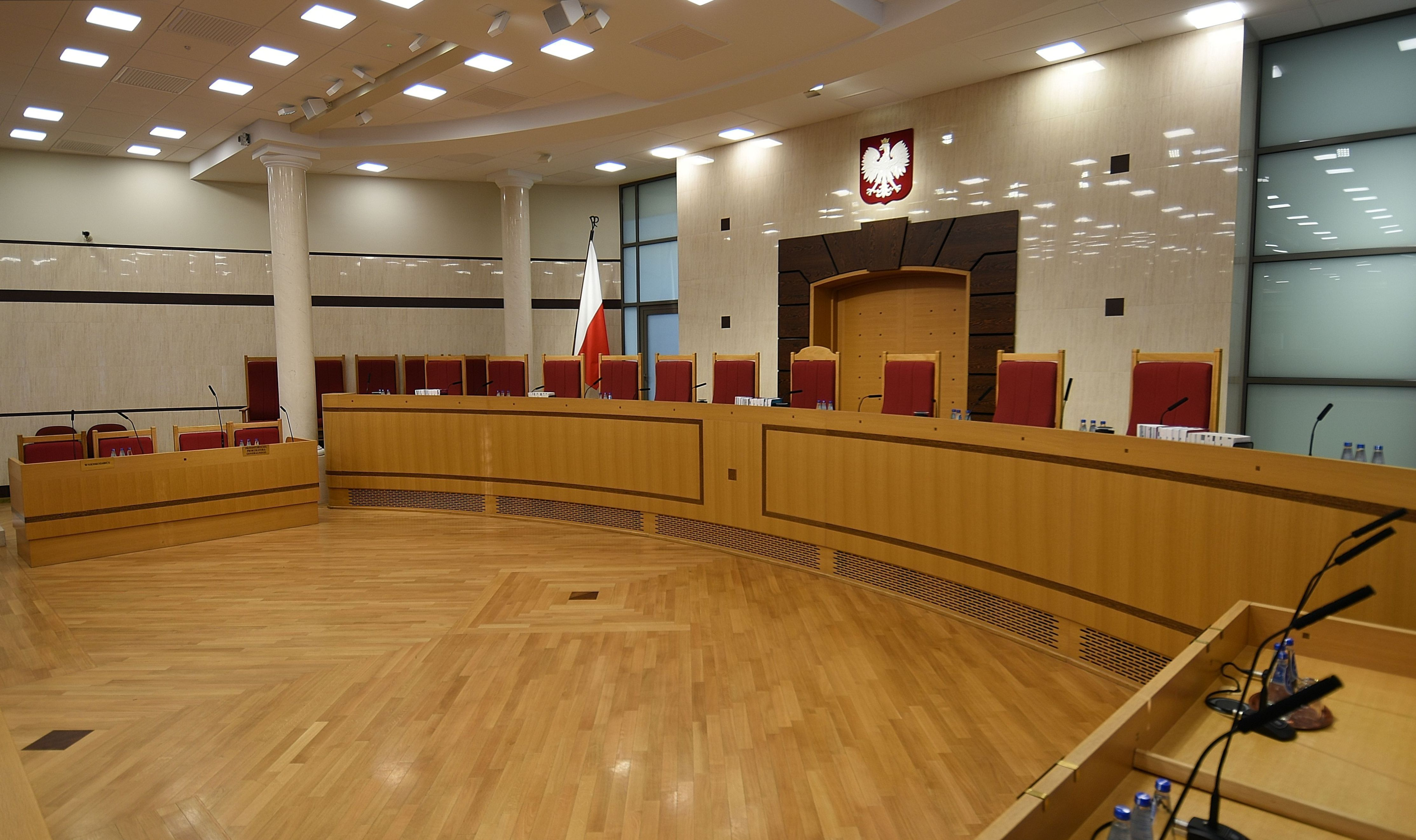 Main courtroom of the Polish Constitutional Tribunal